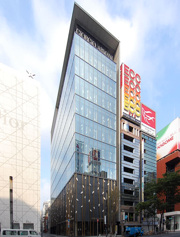 Armani Ginza Tower, at Ginza Tokyo Japan, design by Doriana & Massimiliano Fuksas & Kajima Construction in 2007.